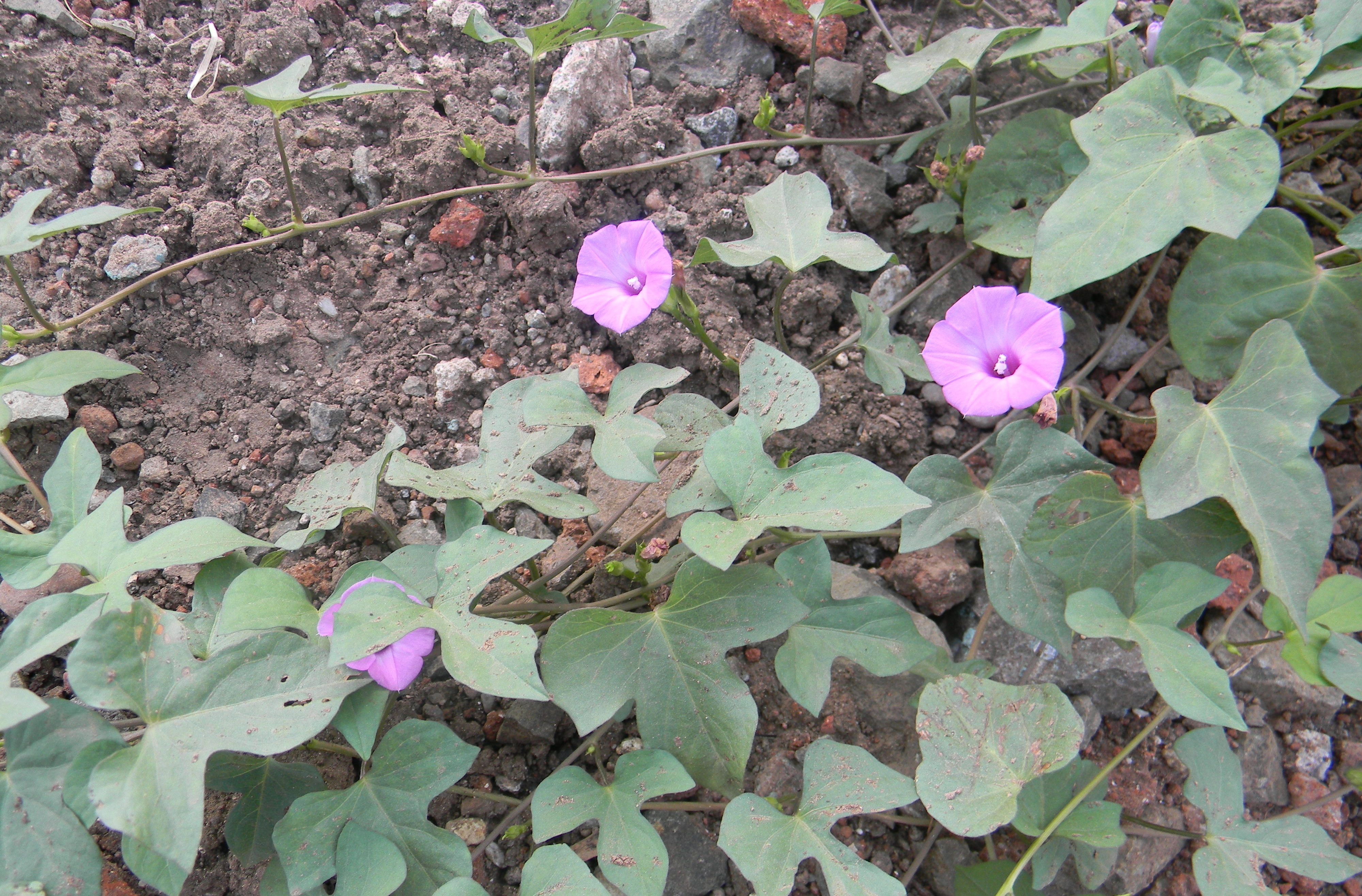 Little bell is native to Tropical America and has been naturalized all over the world.